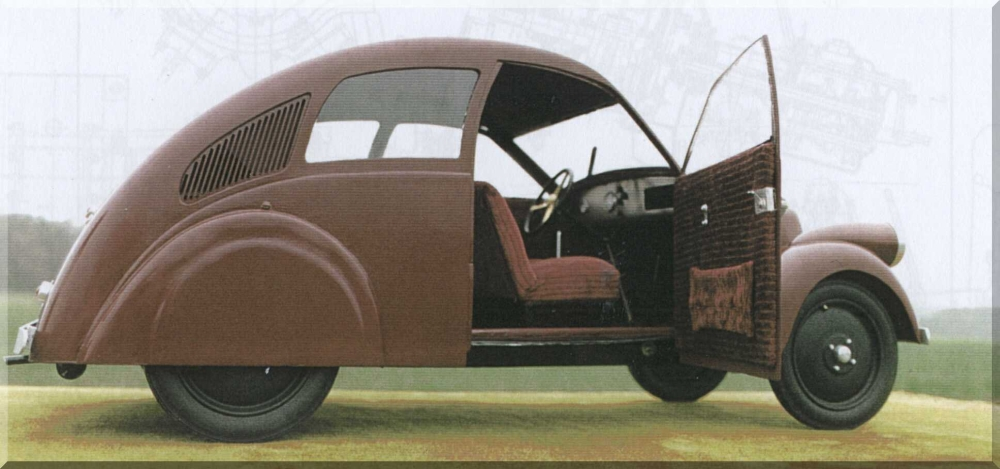 Porsche Type 12, Model 1:5 at Nuremberg Museum of Industrial Culture